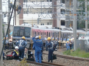 The Amagasaki rail crash, occurred on 25 April 2005 at Amagasaki, near Osaka, Japan.